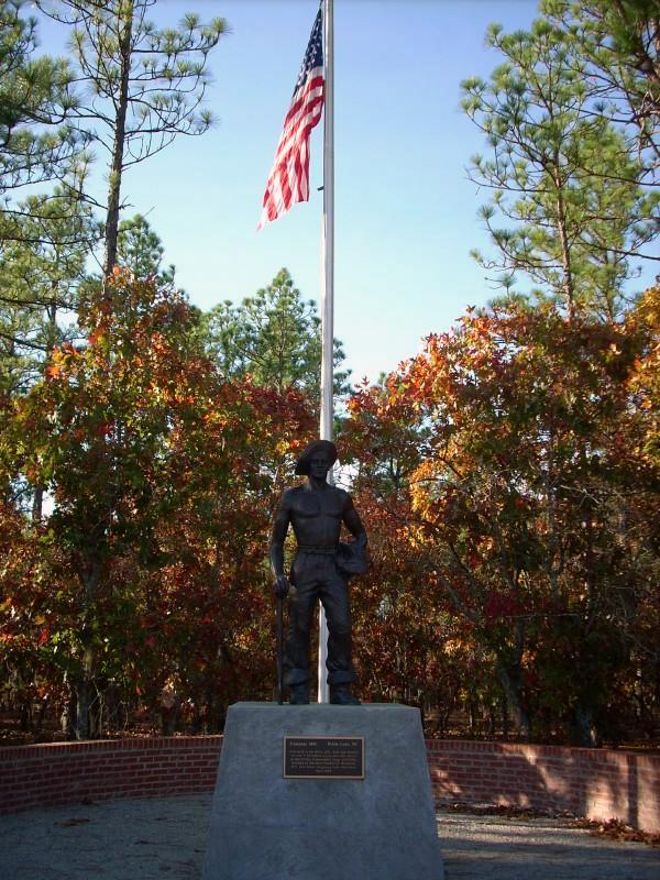 A statue recognizing the efforts of the CCC at Singletary Lake State Park